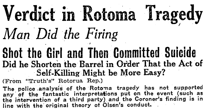 Headline from NZ Truth Newspaper, Issue 1015, May 1925, Page 5